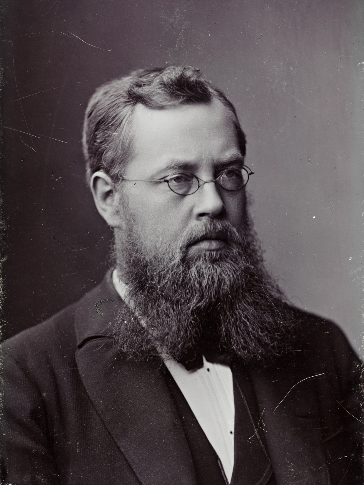 Tittel / Title: Portrett av Sophus Lie (1842-1899) Beskrivelse / Description: Kabinettkort. Dato / Date: 1896 Fotograf / Photographer: L. Szacinski (Christiania) Sted / Place: Oslo Eier / Owner Institution: Nasjonalbiblioteket / National Library of Norway Lenke / Link: Bildesignatur / Image Number: blds_05737